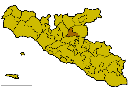 Locator map of San Biagio Platani (italy)